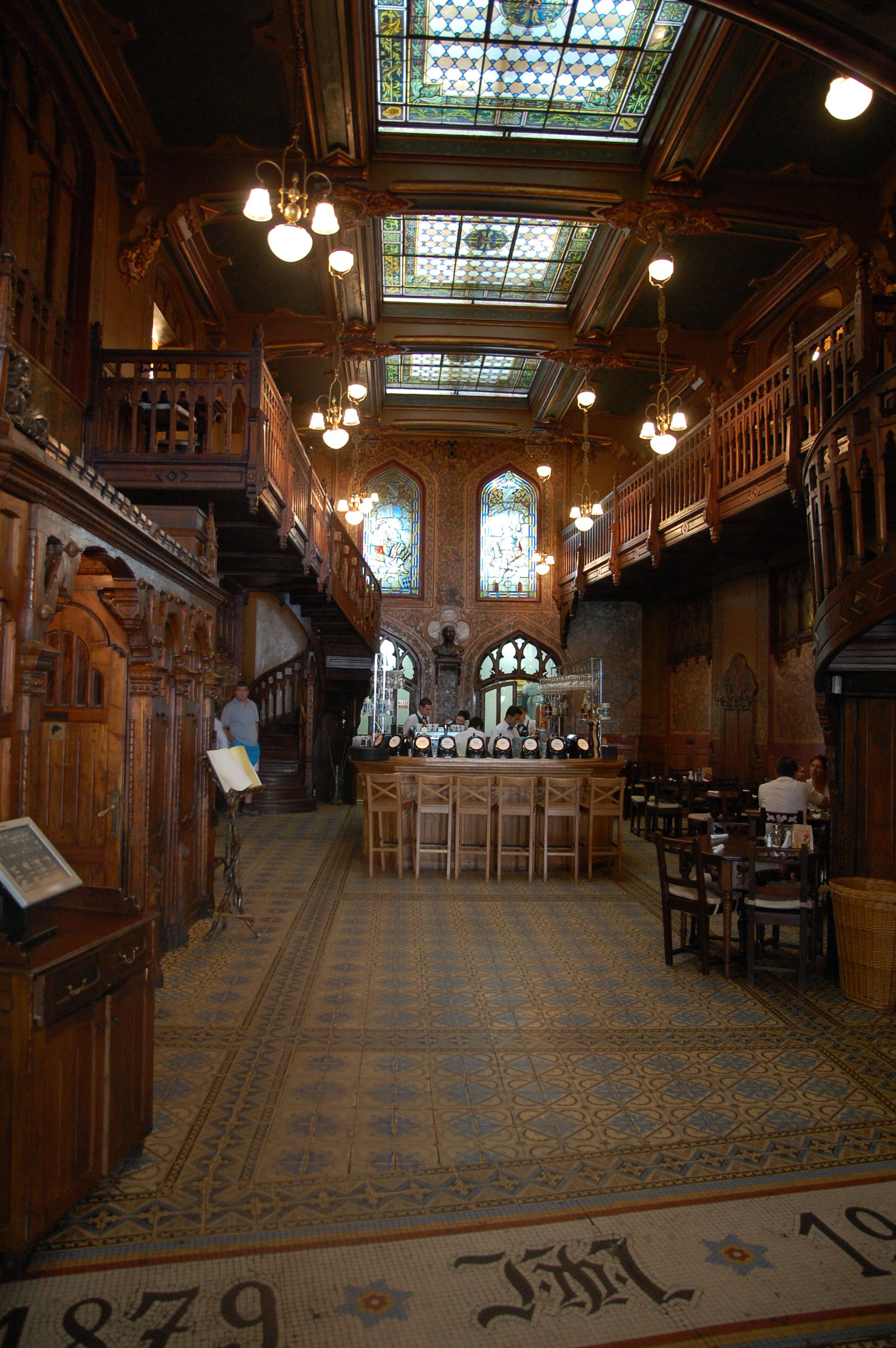 View of the Art Nouveau interior of the famous Caru' cu Bere (restaurant) — in Bucharest. Romania. The name of the restaurant in English would be "Beer Cart".